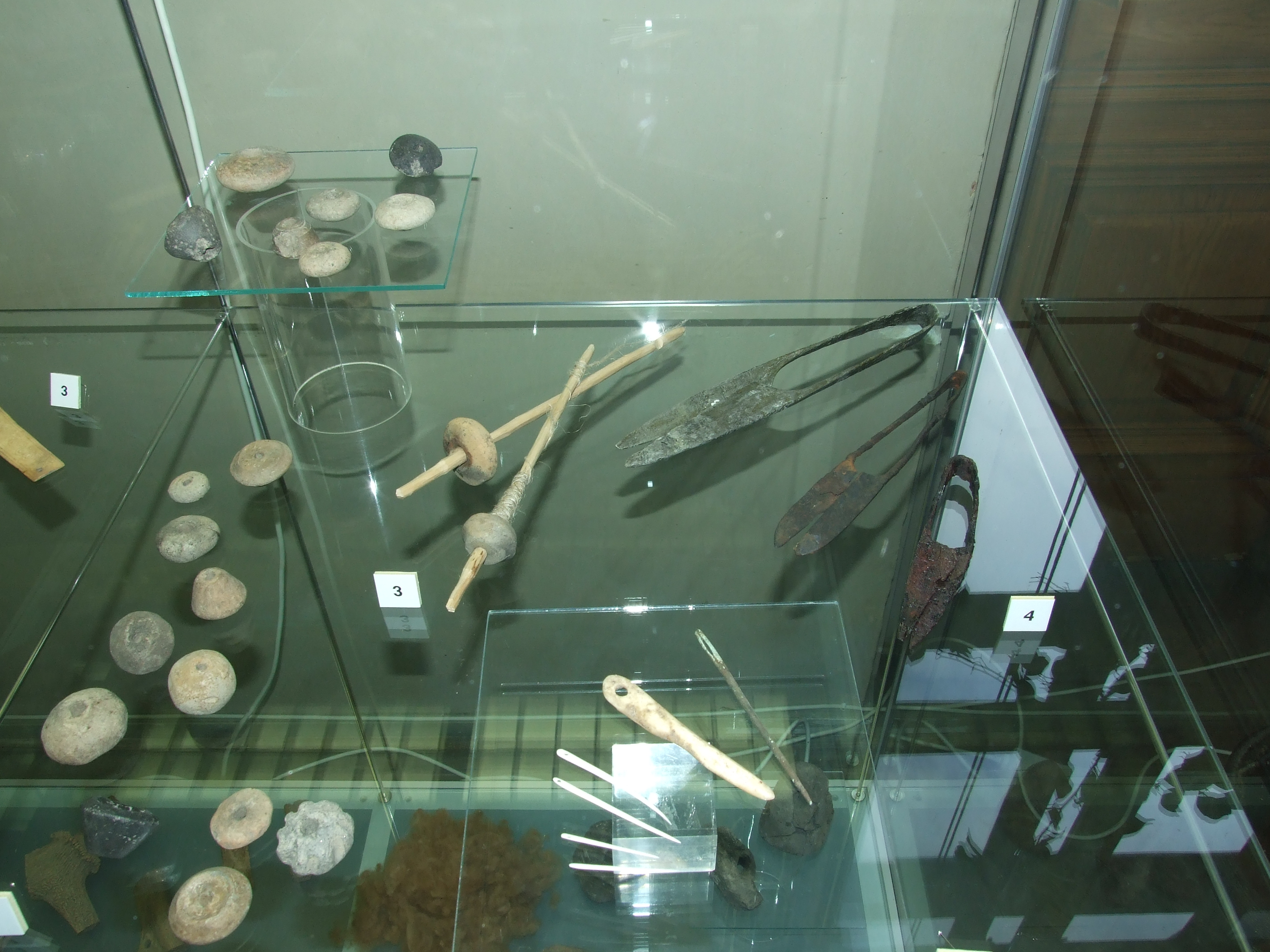 Prehistoric Times of Bohemia, Moravia and Slovakia, National Museum in Prague. Textile working Spindle whorls (various localities, Roman Period) Bone and bronze needles (Tišice, Mělník District; Roman Period) Reconstruction of spindle (spindle whorl from Tišice; Roman Period) Scissors (various localities; Roman Period - Migration Period)